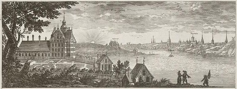 Karlberg Palace in 1662 as presented in Suecia antiqua et hodierna, 1690-1710.